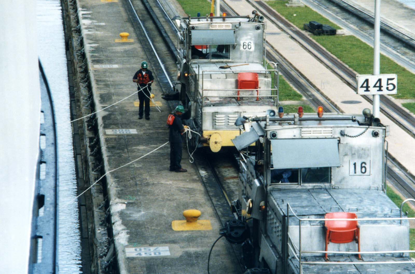 Panama Canal workers tying lead rope to the mule's wire cable. The mule will then operate its cable reels so that the cable is looped around an anchor point (such as a bitt) on the ship, then pull it tight in conjunction with a mule on the other side, so the ship is held firmly in the middle.